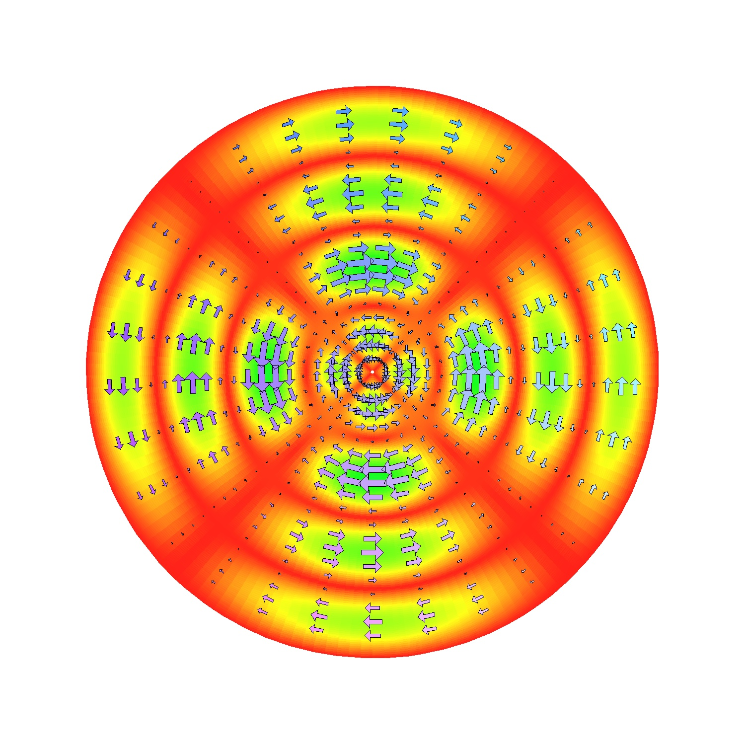 Plot of E and H fields on the TEnl mode defined by n and l.